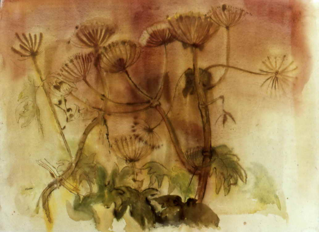 Watercolour, pen and ink. Umbelliferous plants, in green,with yellow and ochre background